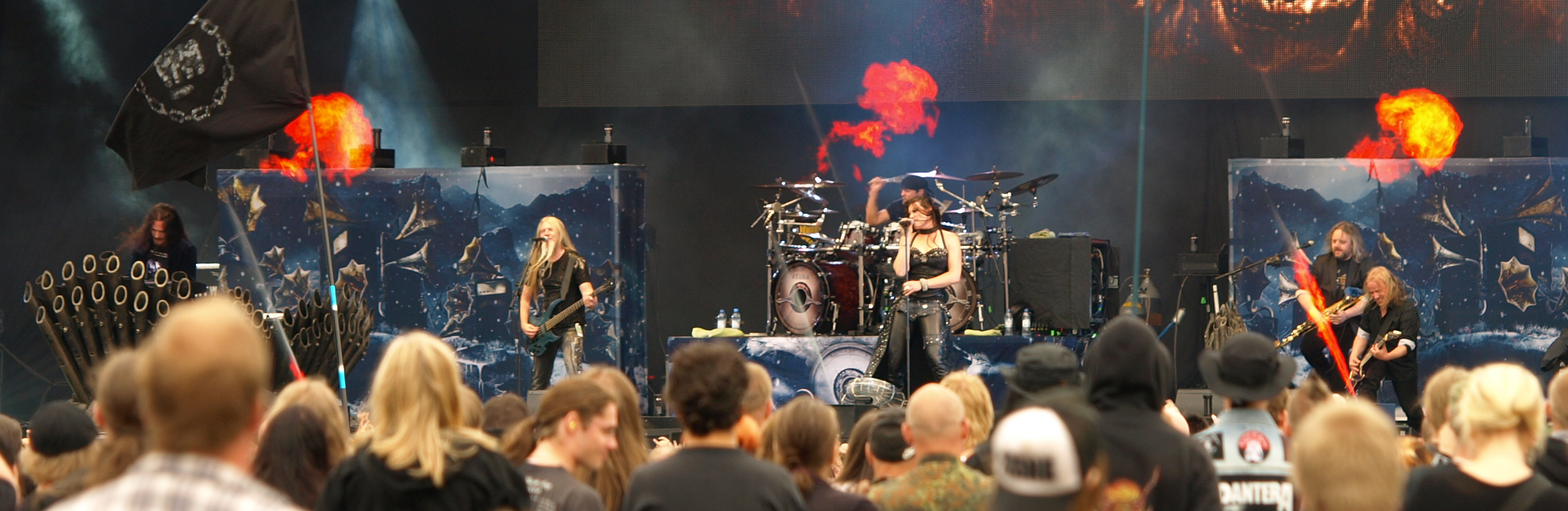 Finnish band Nightwish at Tuska Open Air 2013